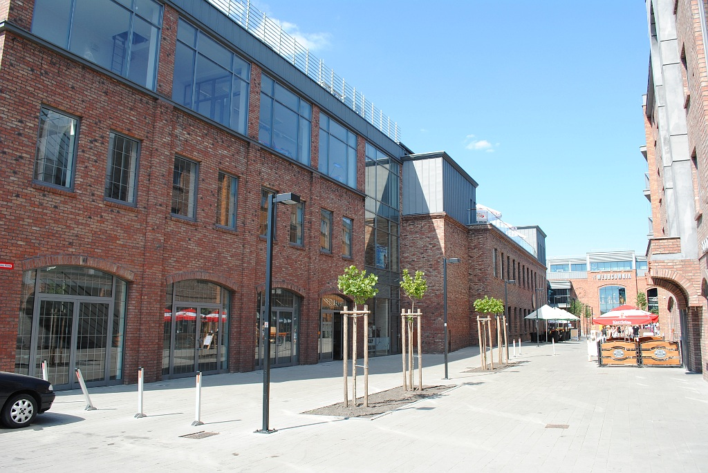 Building D of Wzorcownia